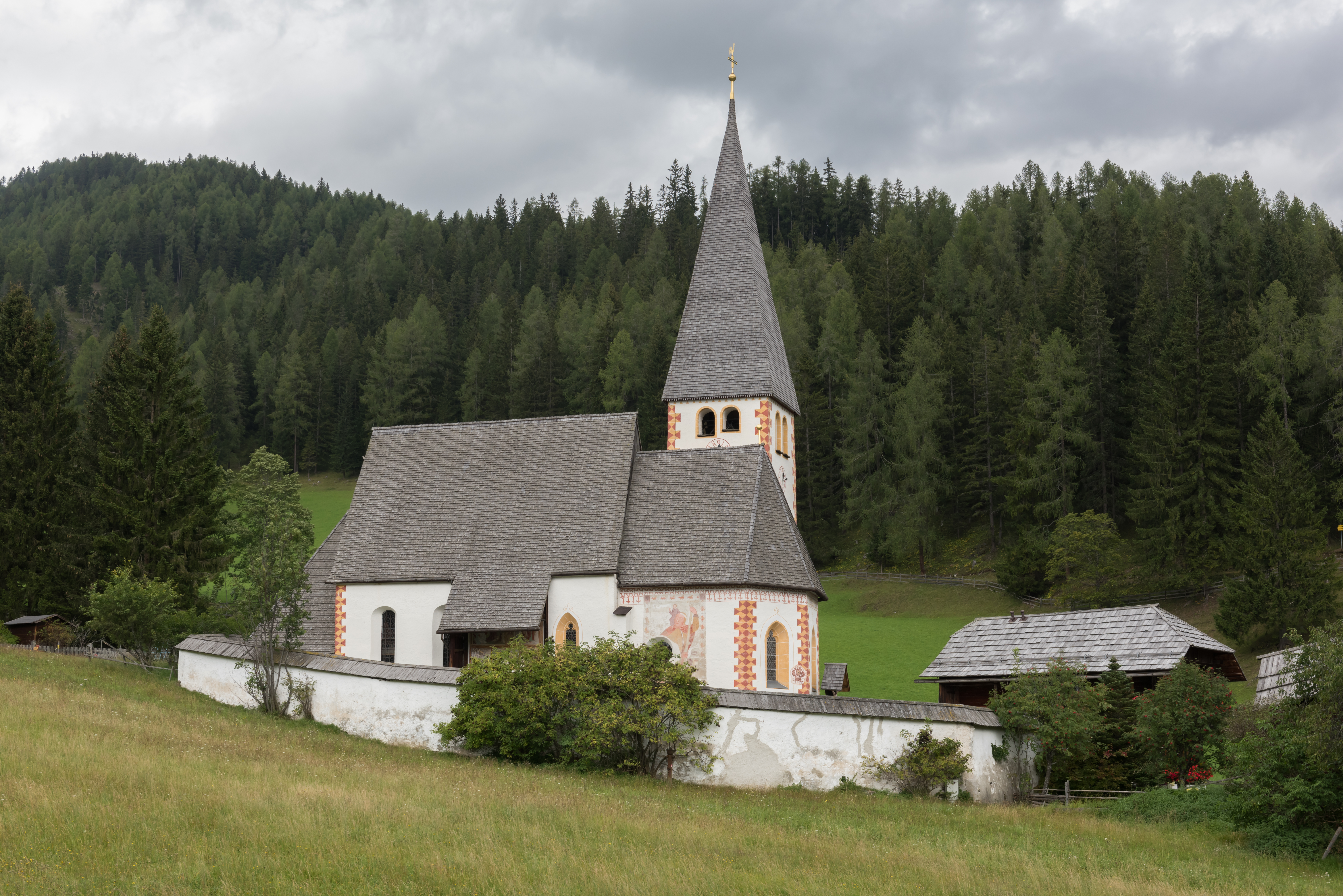 Roman Catholic parish church Saint Oswald on Kirchweg #16 in Saint Oswald, municipality Bad Kleinkirchheim, district Spittal an der Drau, Carinthia, Austria, EU